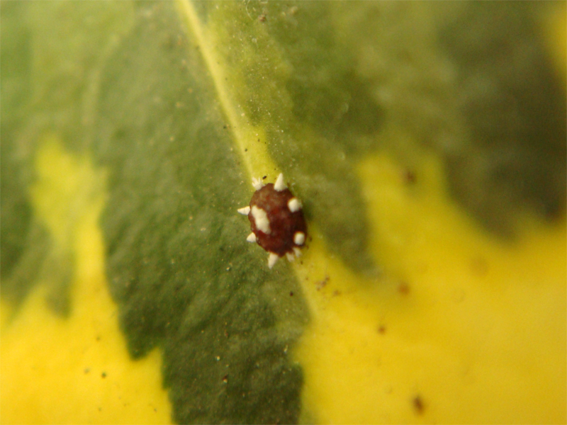 Female Ceroplastes rusci scale insect in Ansião, Leiria, Portugal